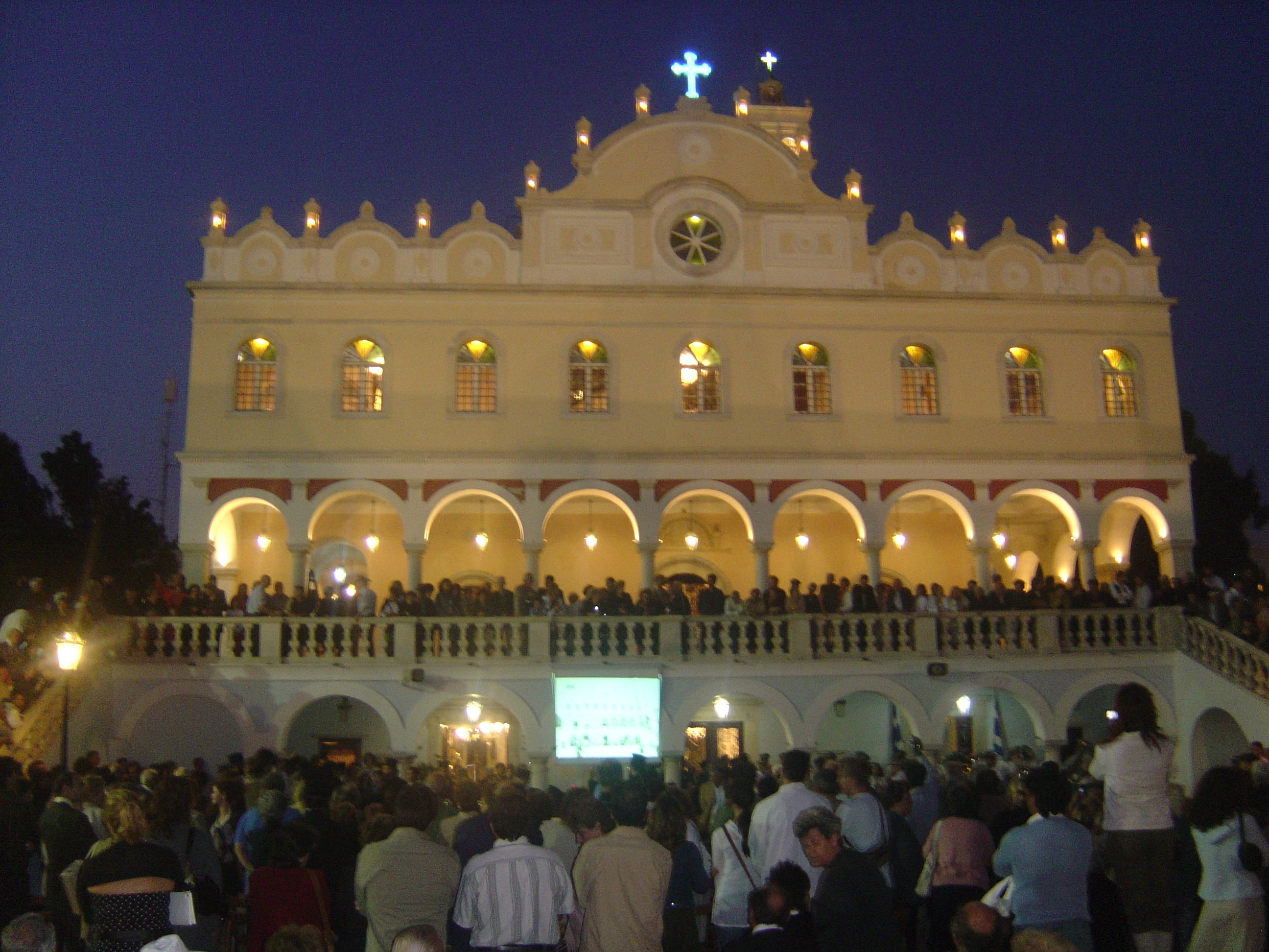 Thnos